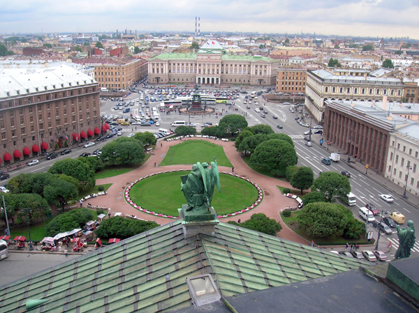 View of St. Isaac's Square and Mariinsky Palace from the dome of St. Isaac's Cathedral, in the city of Saint Petersburg, Russia